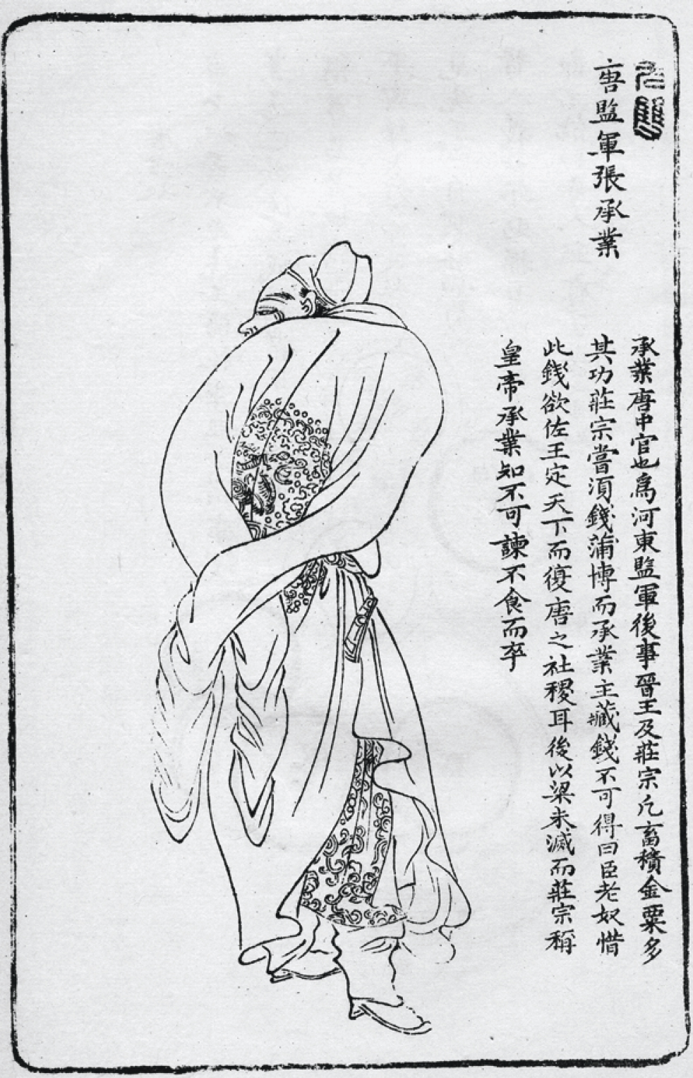 This depicts Zhang Chengye (張承業), an official from the Tang dynasty.